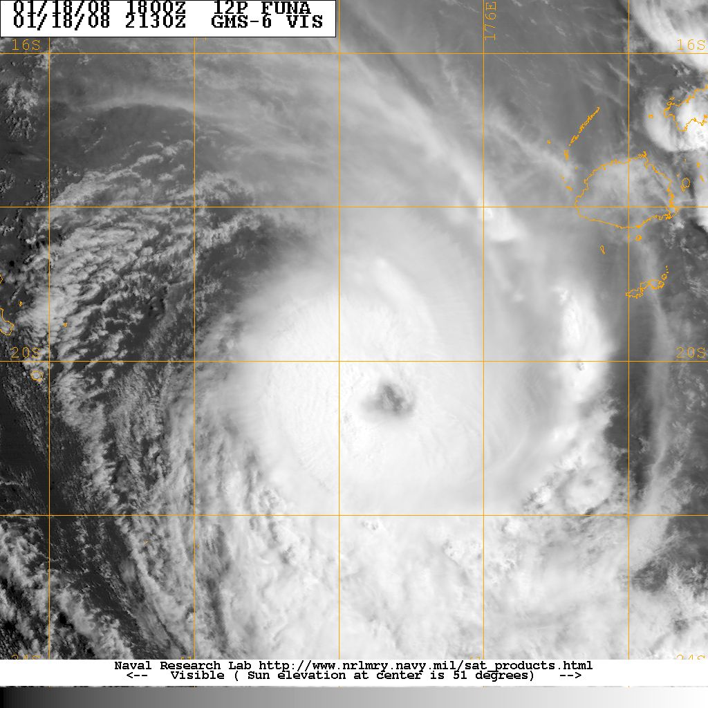 Tropical Cyclone Funa, seen from the GMS-6 satellite at 2130Z January 18.